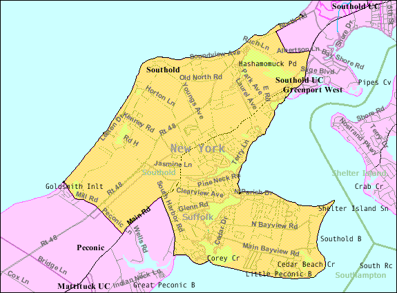 U.S. Census 2000 reference map for Southold